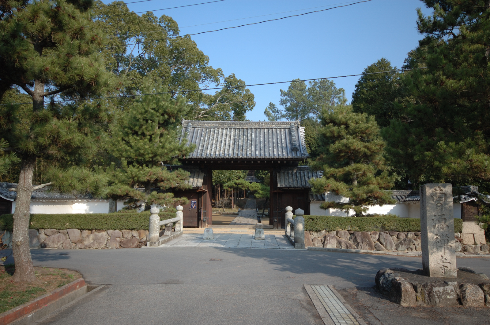 an outer gate